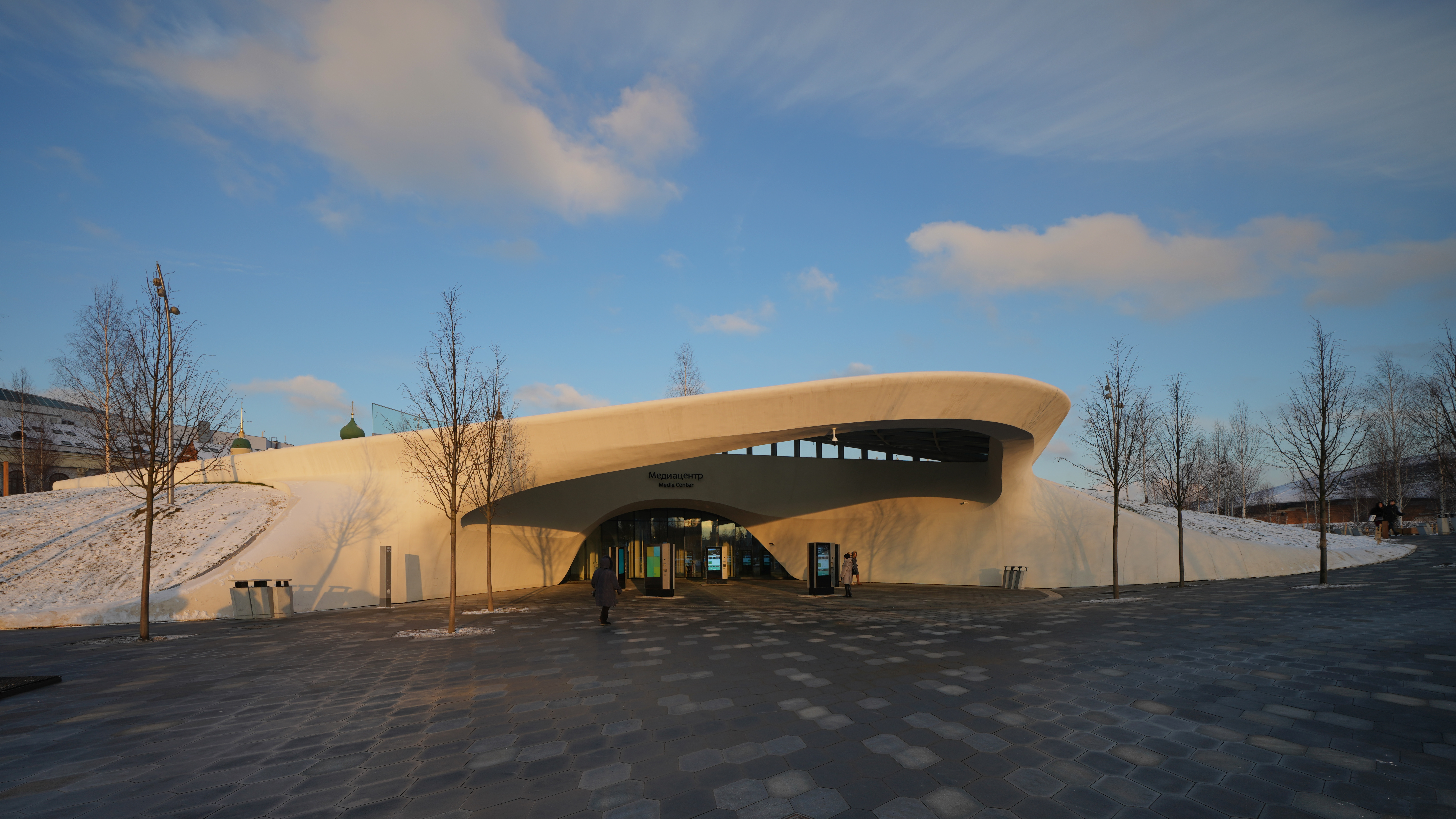 Zaryadye Park in Moscow